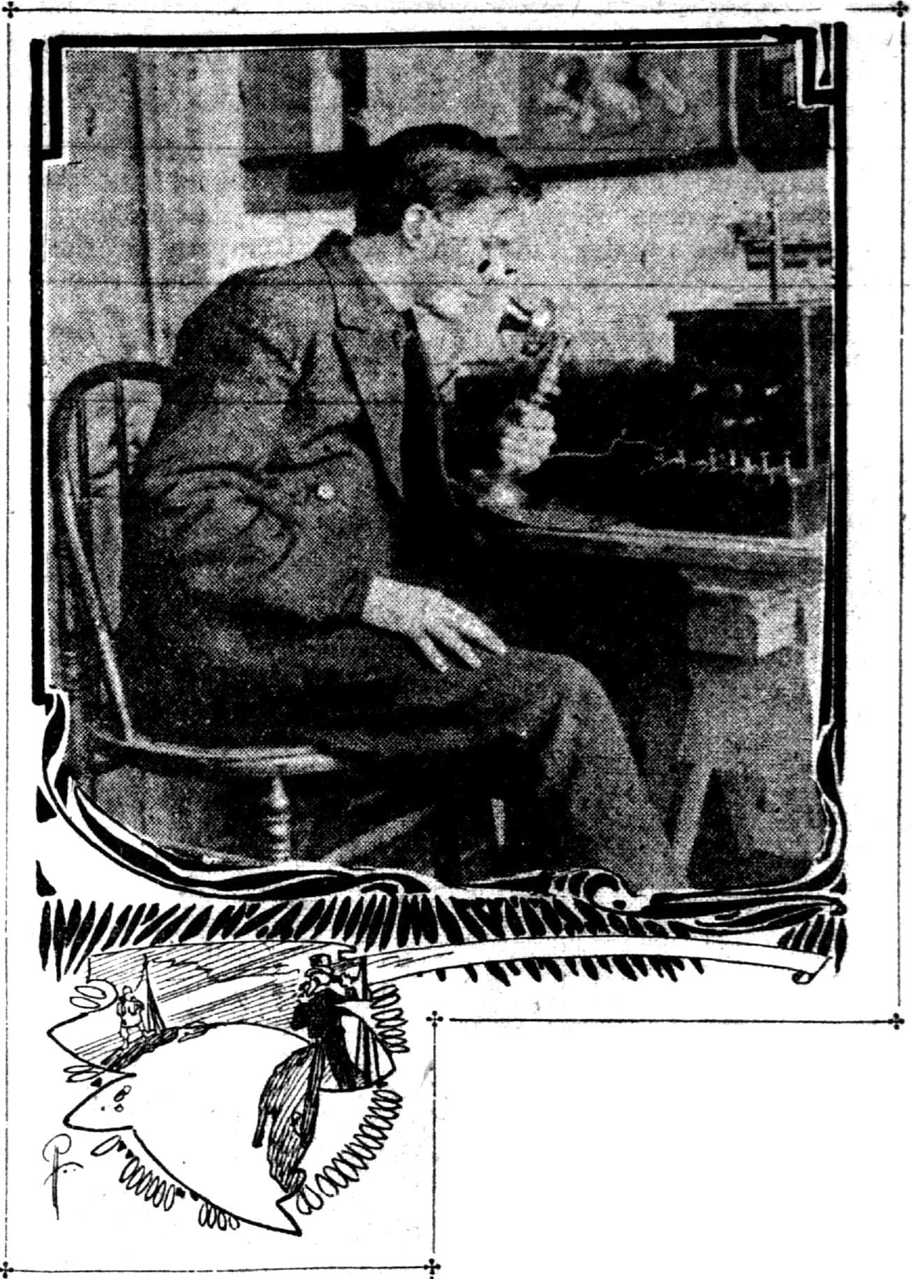 Francis McCarty's successful demonstration of his radiotelephone apparatus. According to the accompanying article, "From the transmitting station at the Cliff House the voice of the operator was carried intelligibly and plainly to the receiving end at Cyclers' Rest, a mile and a half away."